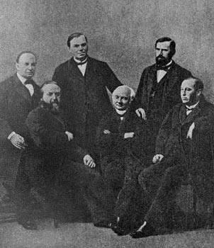 Illustration from the Album "Krengolmskaya Manufactory. Historic Description, composed on the Occasion of the Fiftieth Anniversary of its Existence", St. Petersburg, 1907. Standing, from the left: Kolbe Ernest Fedorovich, Khludov Aleksei Ivanovich, Khludov Gerasim Ivanovich. Sitting, from the left: Soldatenkov Kozma Terentievich, Baron Knop Lev Gerasimovich, Barlov Richard Vasilievich.